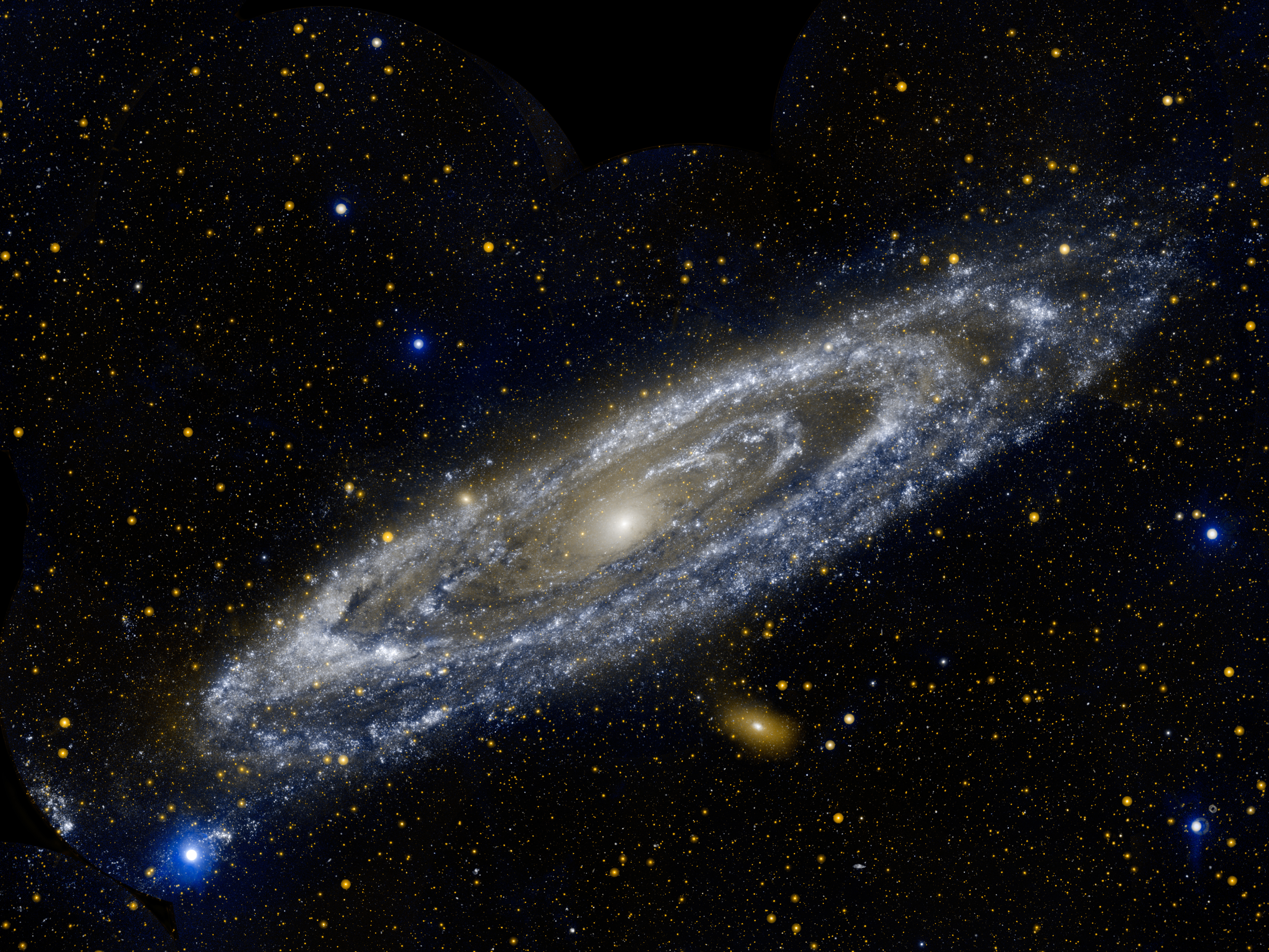 Hot stars burn brightly in this image from NASA's Galaxy Evolution Explorer, showing the ultraviolet side of a familiar face. At approximately 2.5 million light-years away, the Andromeda galaxy, or M31, is our Milky Way's largest galactic neighbor. The entire galaxy spans 260,000 light-years across -- a distance so large, it took 11 different image segments stitched together to produce this view of the galaxy next door. The bands of blue-white making up the galaxy's striking rings are neighborhoods that harbor hot, young, massive stars. Dark blue-grey lanes of cooler dust show up starkly against these bright rings, tracing the regions where star formation is currently taking place in dense cloudy cocoons. Eventually, these dusty lanes will be blown away by strong stellar winds, as the forming stars ignite nuclear fusion in their cores. Meanwhile, the central orange-white ball reveals a congregation of cooler, old stars that formed long ago. When observed in visible light, Andromeda’s rings look more like spiral arms. The ultraviolet view shows that these arms more closely resemble the ring-like structure previously observed in infrared wavelengths with NASA’s Spitzer Space Telescope. Astronomers using Spitzer interpreted these rings as evidence that the galaxy was involved in a direct collision with its neighbor, M32, more than 200 million years ago. Andromeda is so bright and close to us that it is one of only ten galaxies that can be spotted from Earth with the naked eye. This view is two-color composite, where blue represents far-ultraviolet light, and orange is near-ultraviolet light.